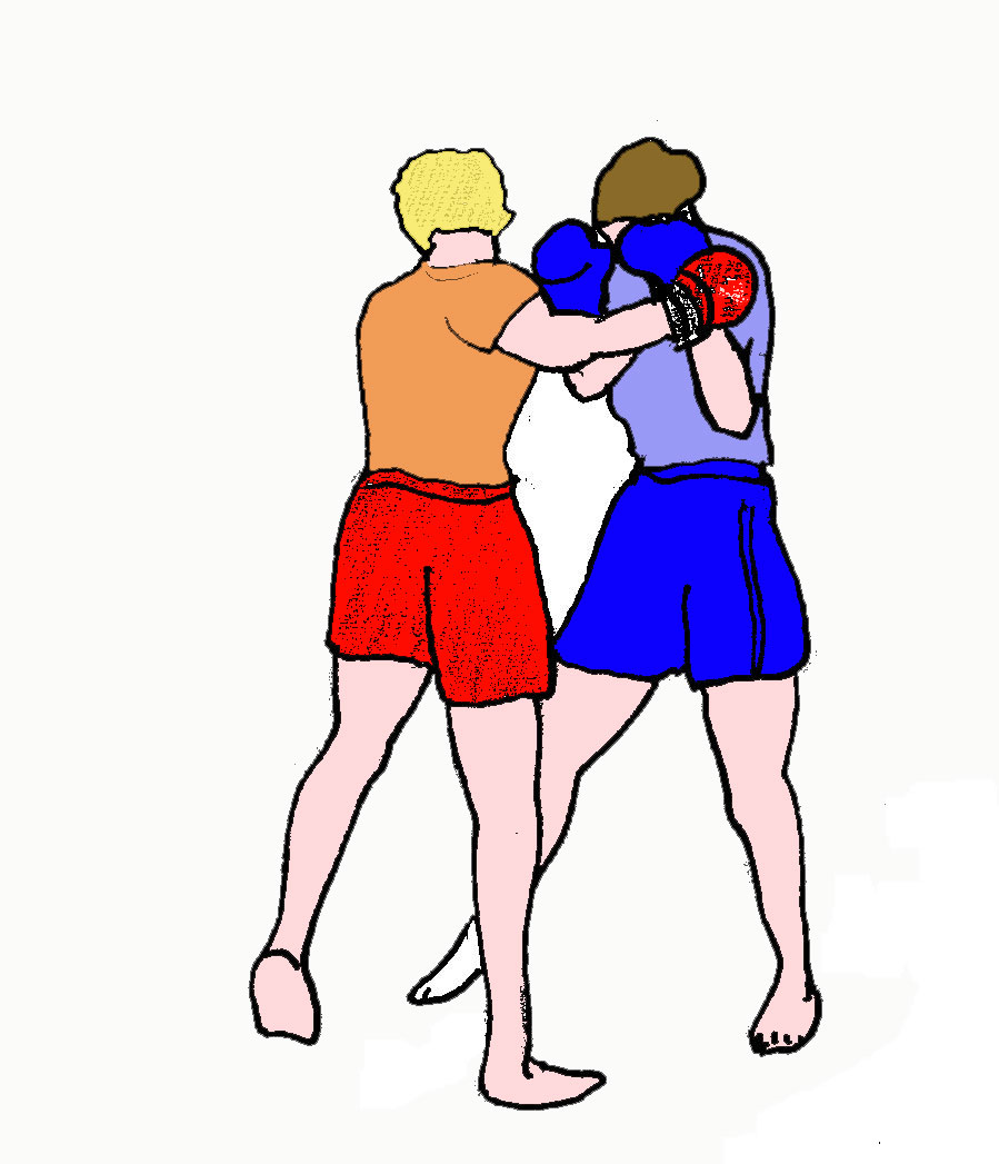 Hook (boxing)